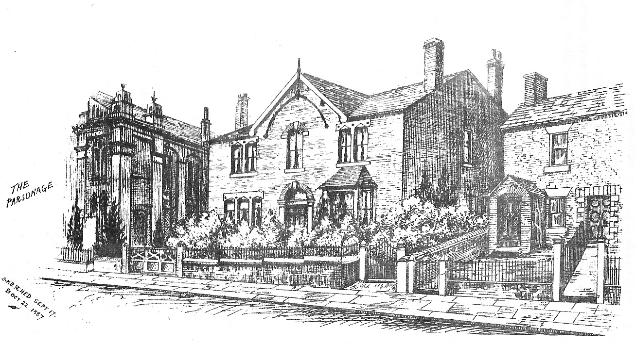 Drawing of the Manse of Westwood Moravian Church, Middleton Road, Oldham, Lancashire, UK, dated 1887